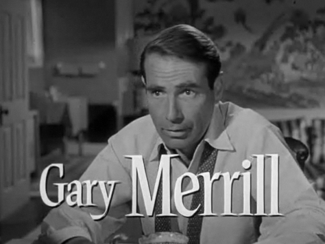 screenshot of Gary Merrill from the trailer for the film Little A Blueprint for Murder (1953)